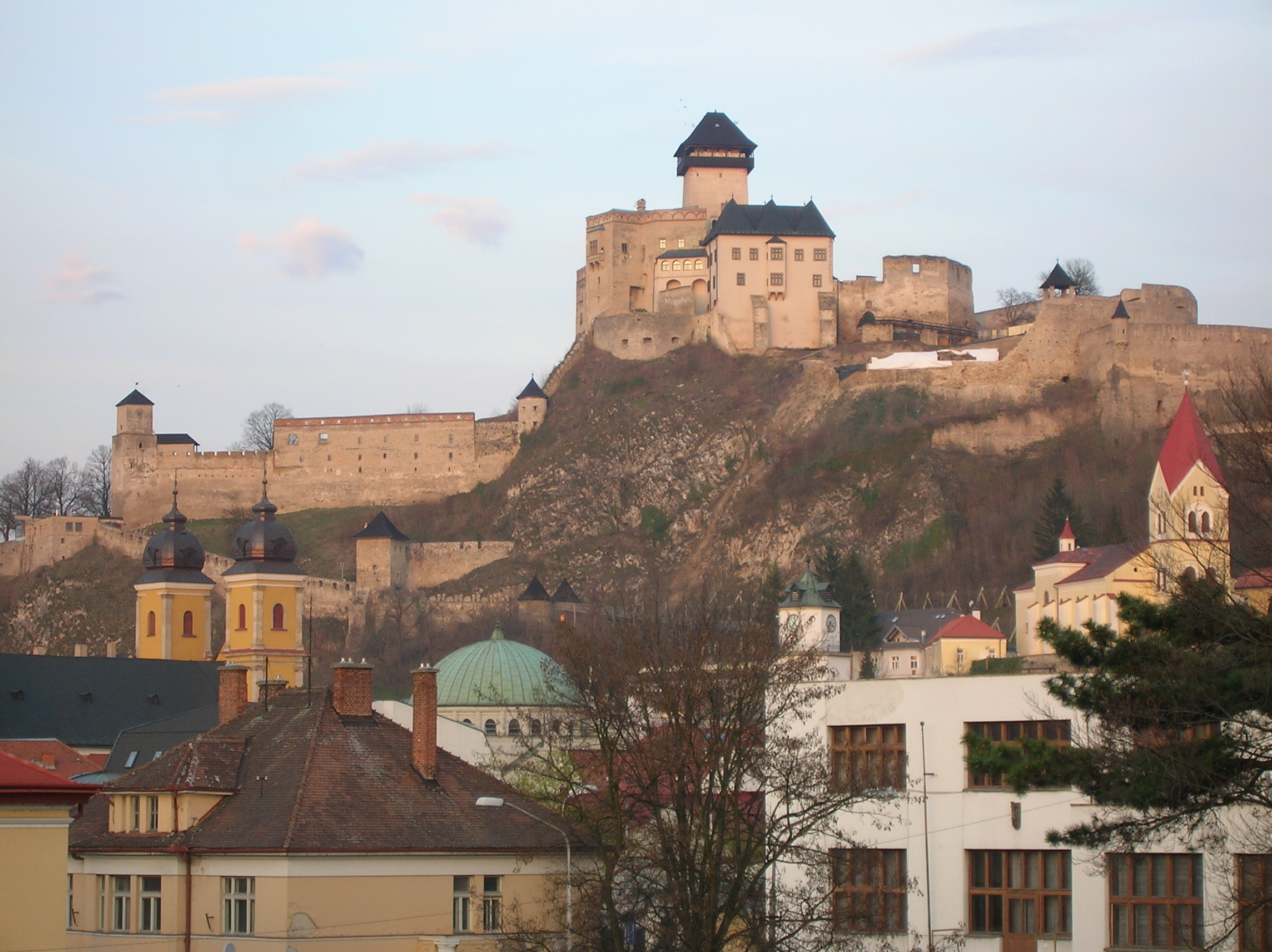 Important sights of Slovakian town Trenčín: synagogue (green cupola), Piaristic church of Saint Francis Xavier (on left, two towers), Lower Gate (the tower of the town), Nativity of Blessed Virgin Mary Parish Church (on right back, red roof of the tower), Trenčín Castle (in the middle back)